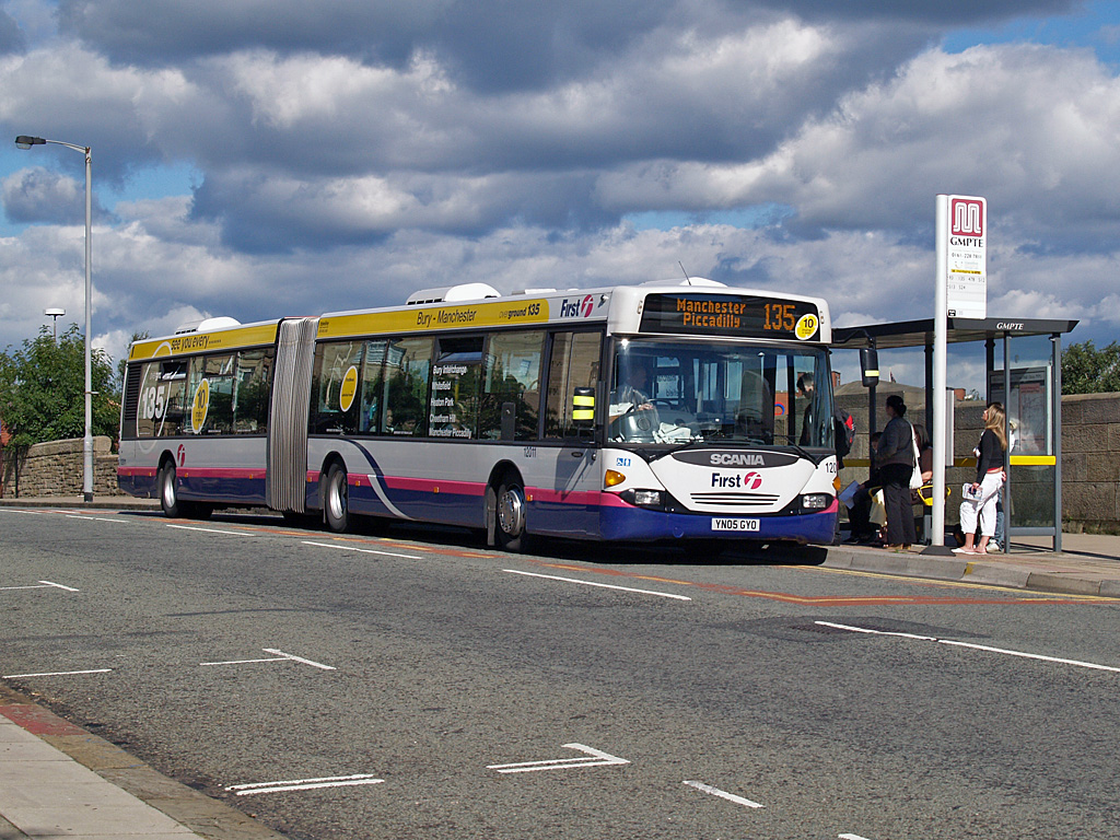 First Manchester Scania articulated bus